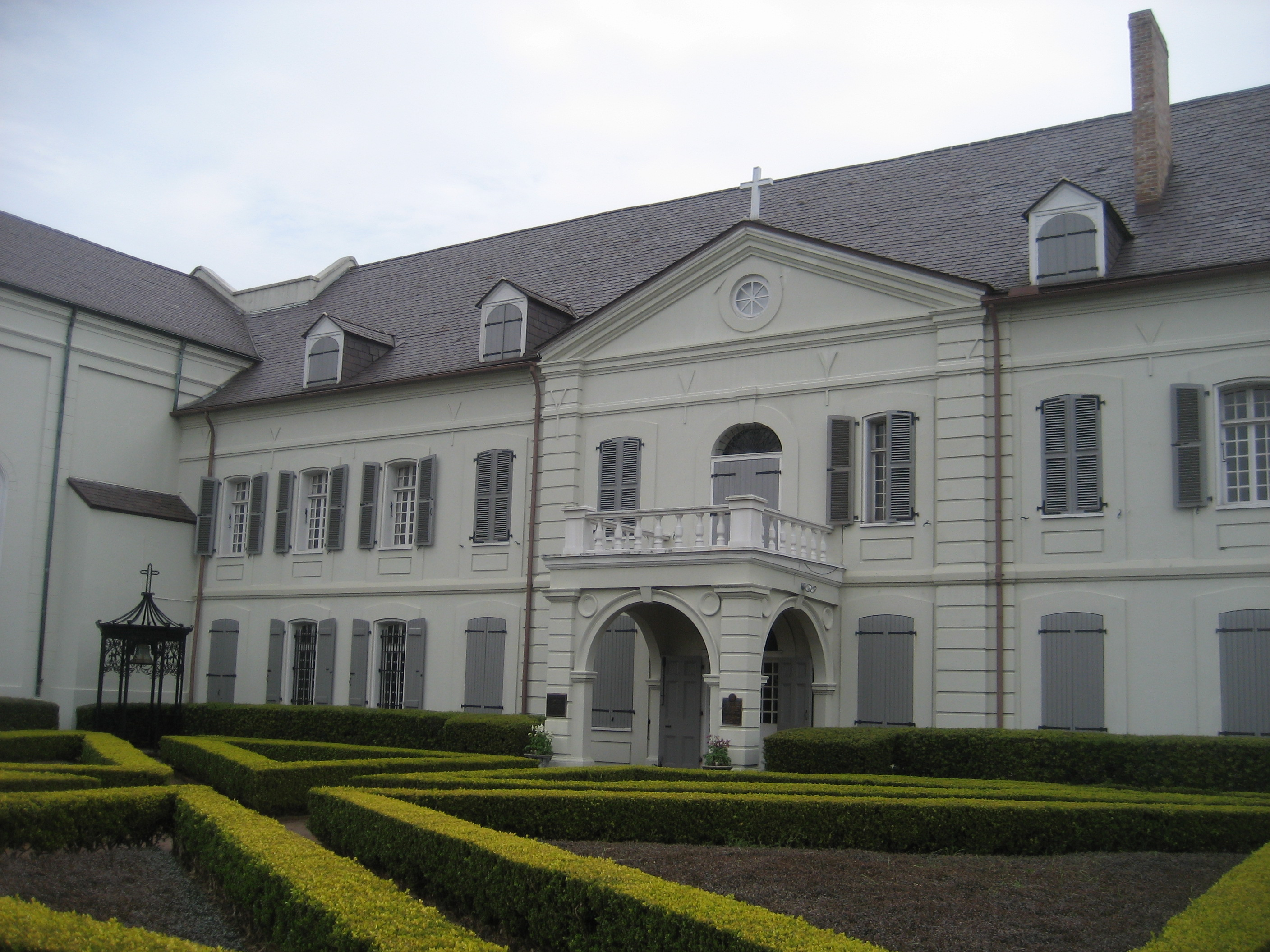 Old Ursulines Convent complex, French Quarter, New Orleans. Exterior view within complex walls on Chartres Street side.